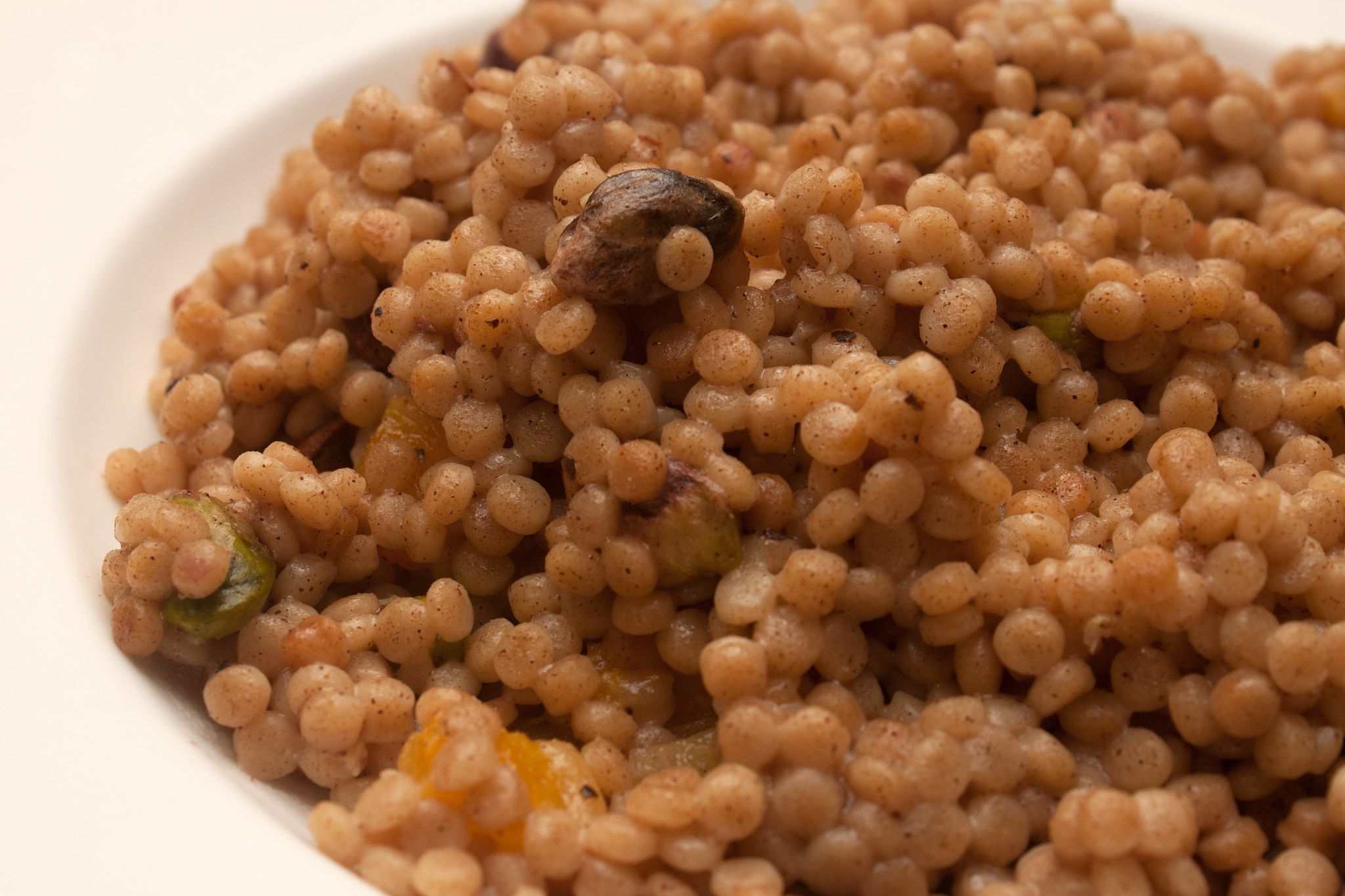 500px provided description: Israeli Couscous [#Food ,#veganomnom]